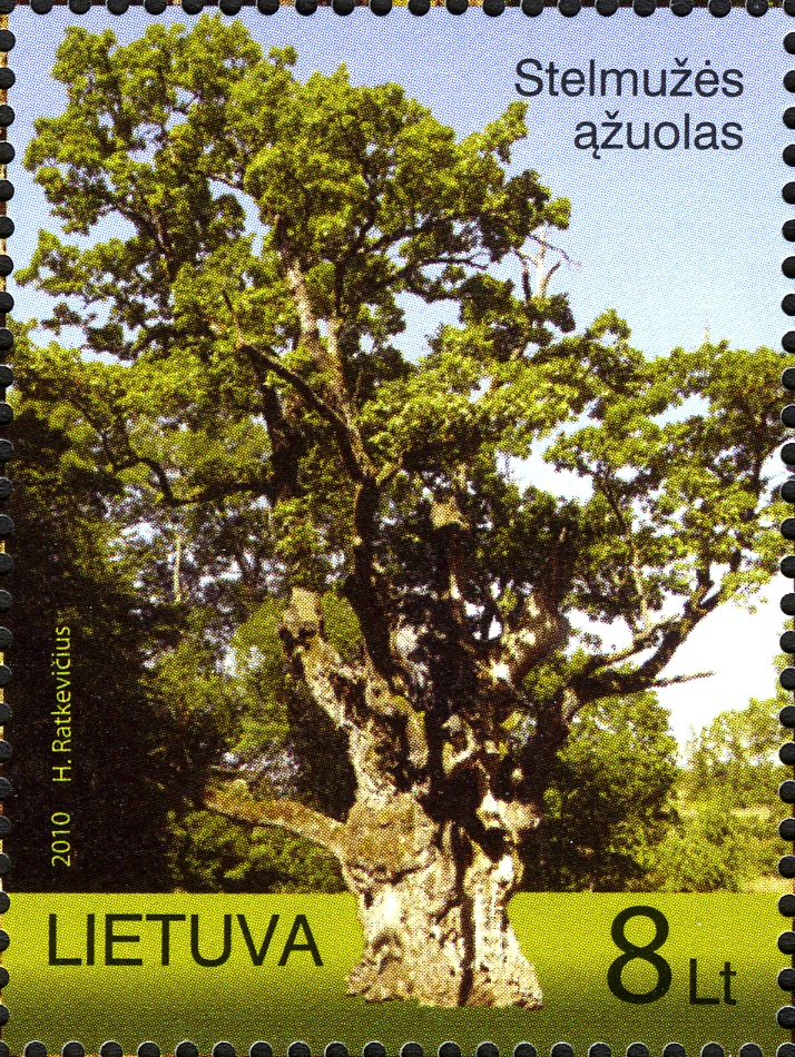 Stamps of Lithuania, 2010